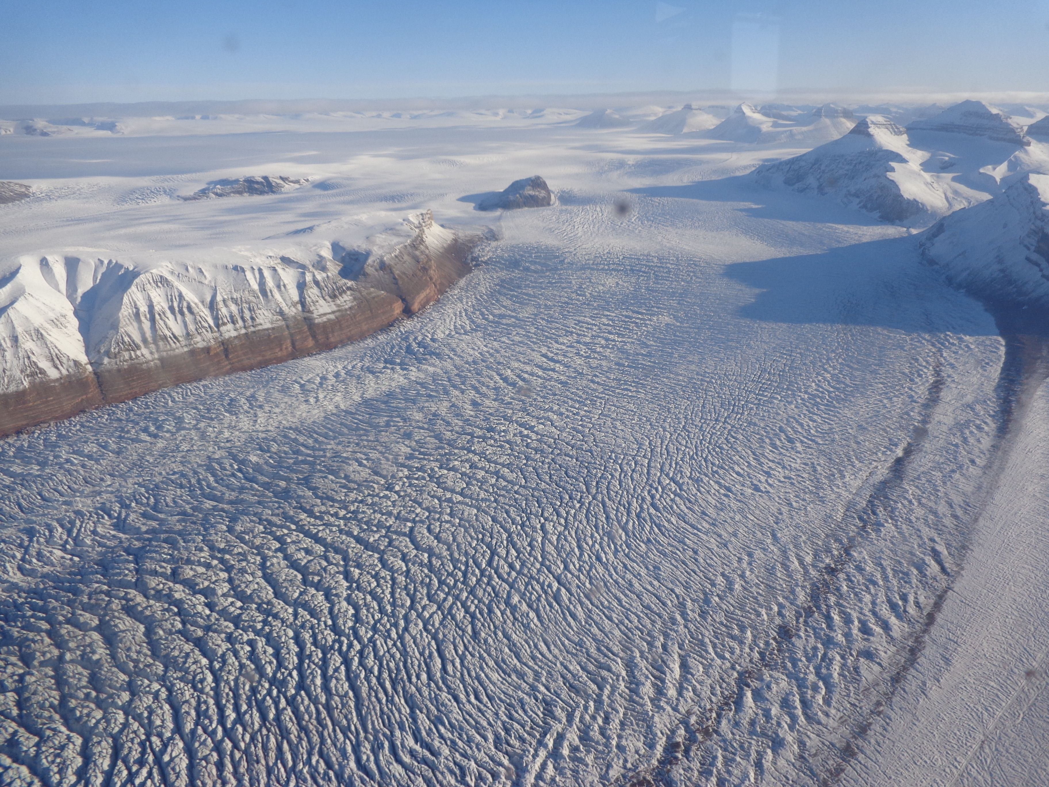 Kronebreen, Svalbard